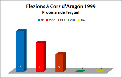 Grafico d'as elezions á Corz d'Aragón de la añada 1999. Resultatos d'a probinzia de Tergüel.